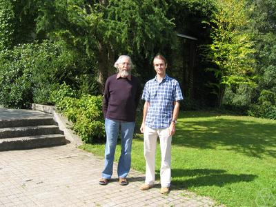 Peter Aczel (left), Michael Rathjen, Oberwolfach 2004